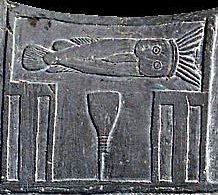 The serekh of Narmer from the verso of the Narmer Palette.